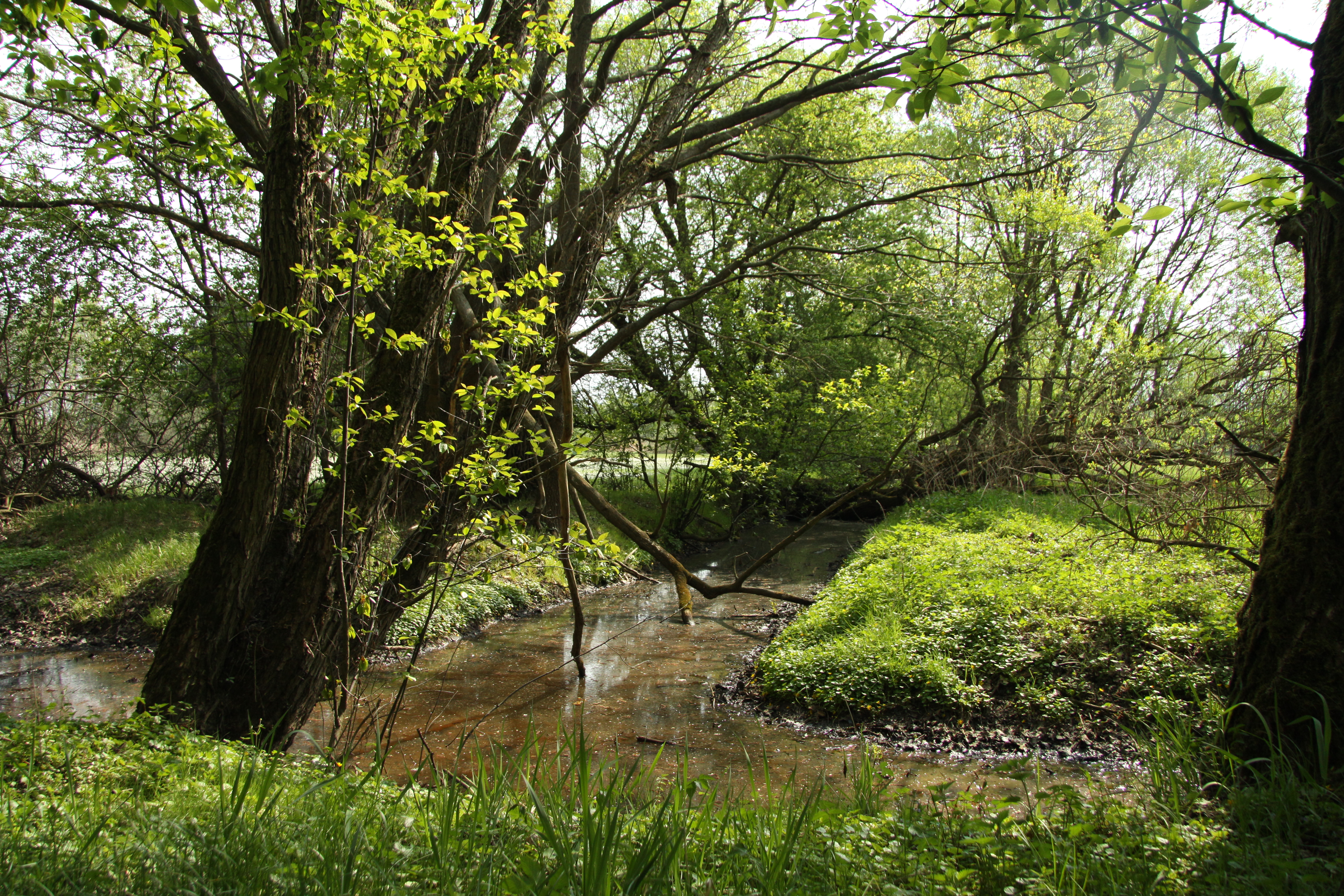 Natural reserve Mokřiny u Vomáčků near Zliv, České Budějovice District, Czech Republic - Google Maps - Google Earth